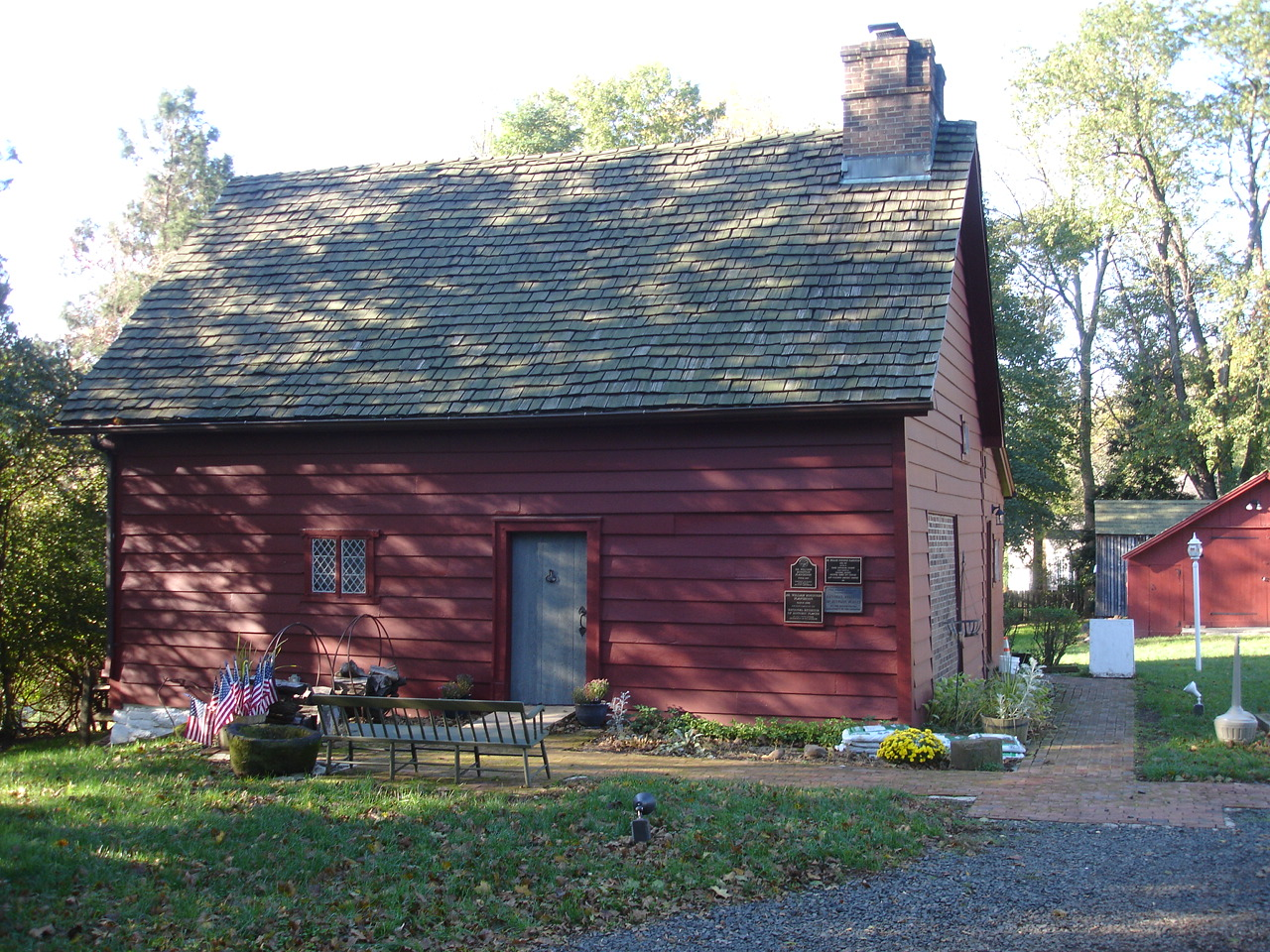 I took this photo of the Dr. William Robinson Plantation House Museum myself on October 22, 2011.